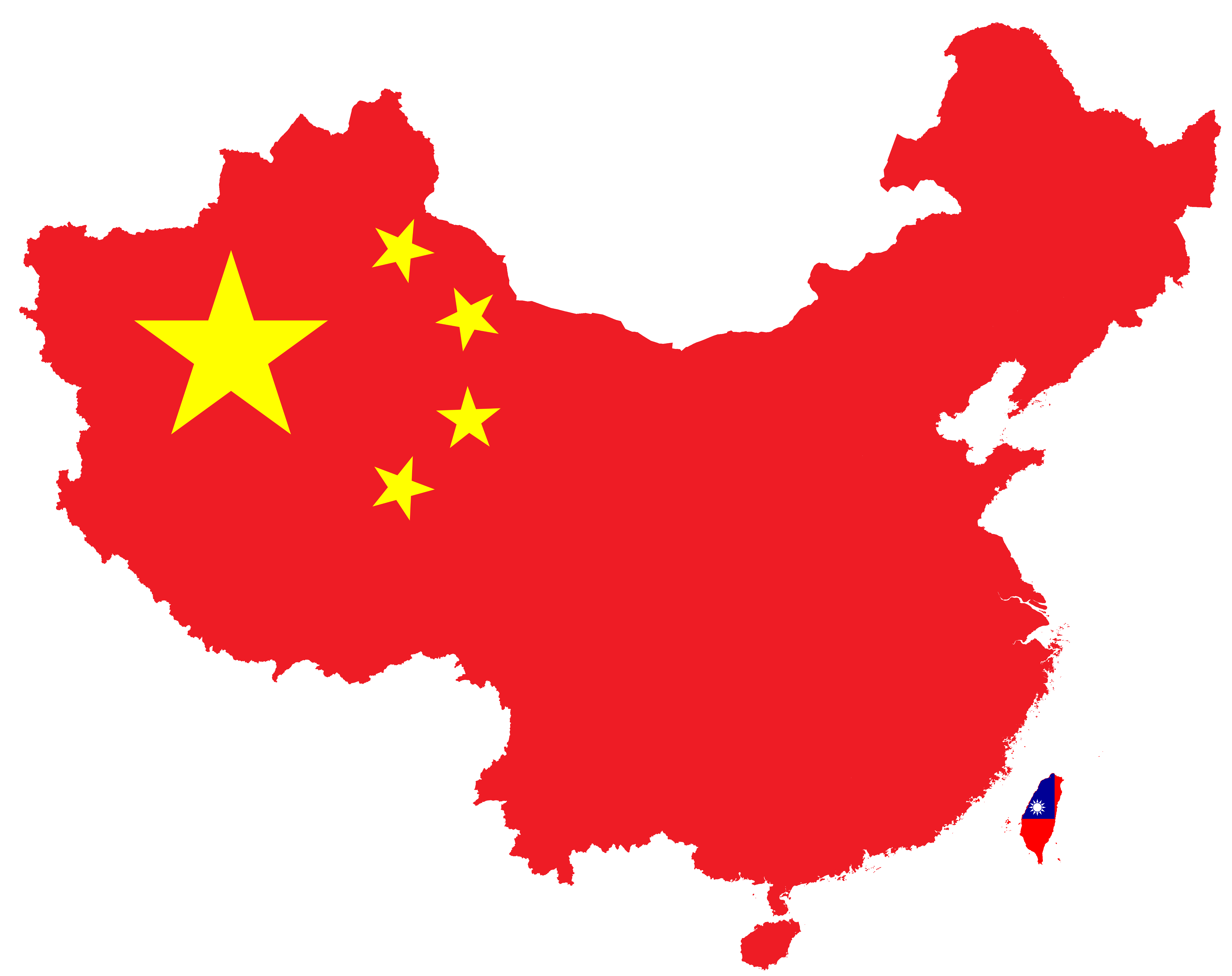 Flag map of China & Taiwan